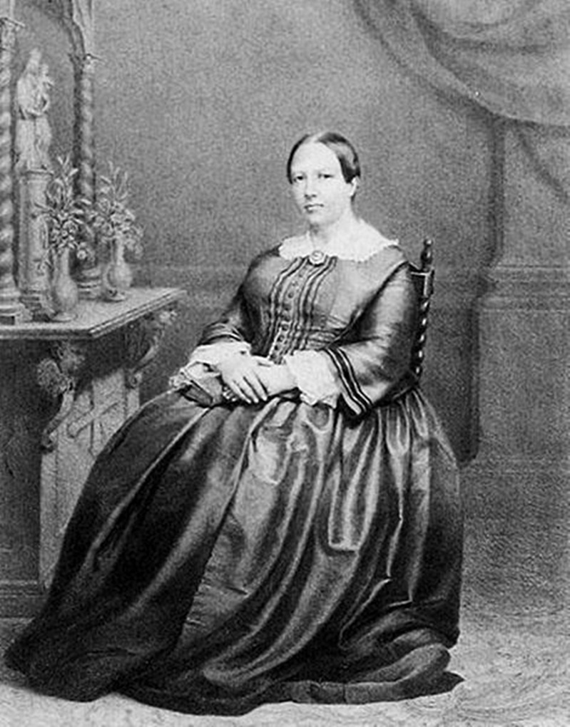 Princess Maria Amelia of Borbon-TwoSicilies (1818–1857), daughter of king Francis I of the Two Sicilies and his wife Maria Isabella of Spain.